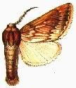 PLATE CXLIV.